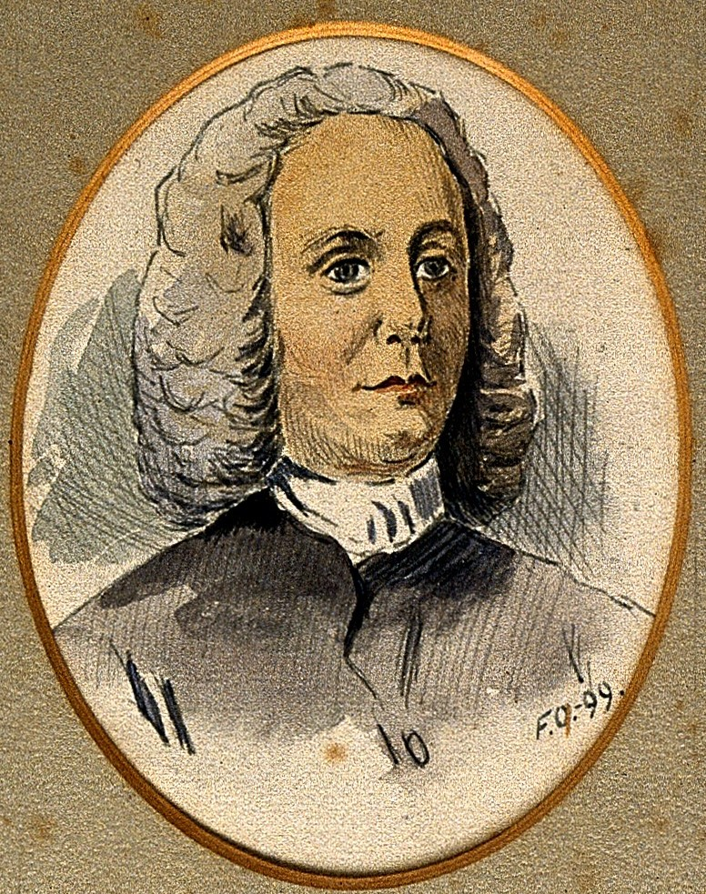 Sir Fielding Ould. Watercolour. Iconographic Collections Keywords: portrait prints; Fielding Ould